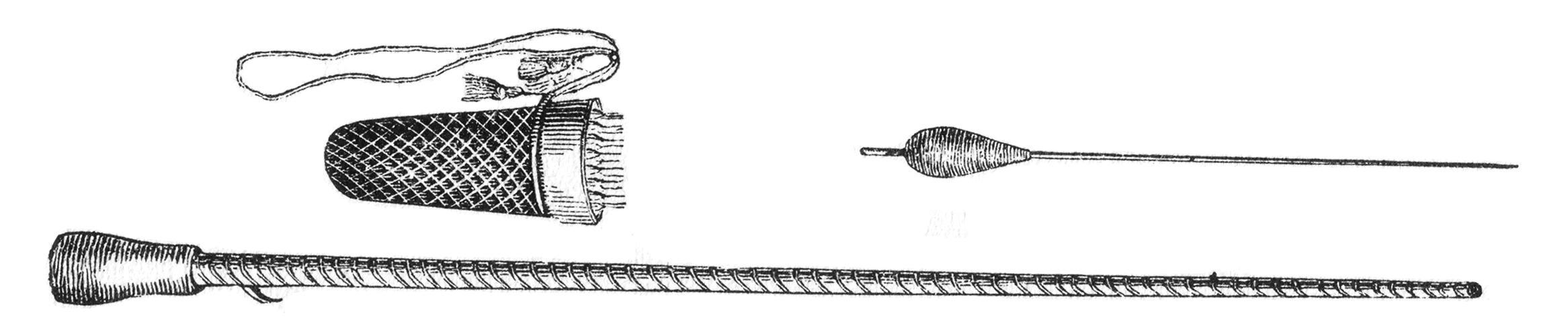 Caption: "Blow-gun, quiver, and arrow."